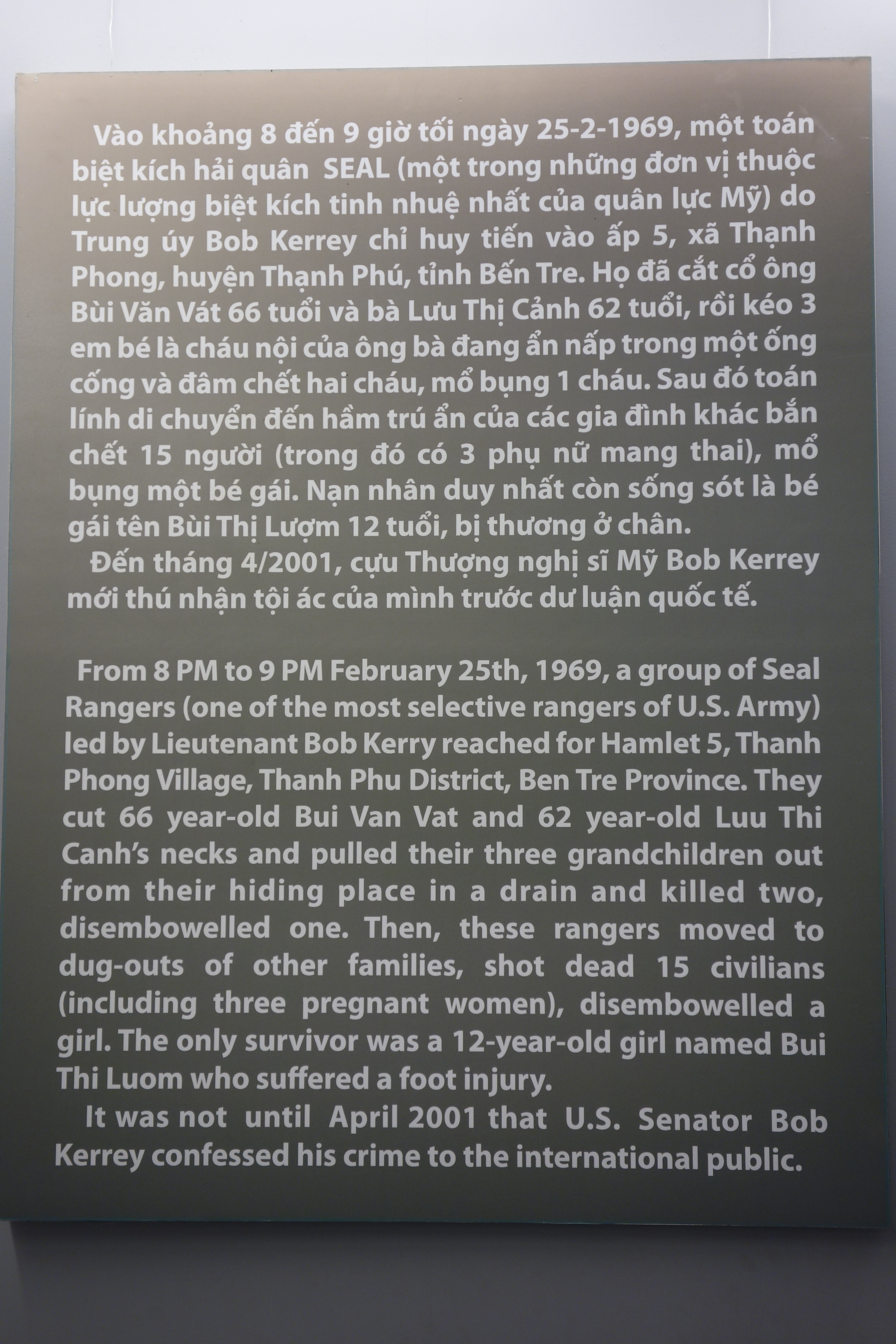 Display in the War Remnants Museum in Vietnamese and English, with details of the Thanh Phong raid led by Lieutenant Bob Kerry. The English text reads: "From 8PM to 9PM February 25th, 1969, a group of Seal Rangers (one of the most selective rangers of U.S. Army) led by Lieutenant Bob Kerry reached for Hamlet 5, Thanh Phong Village, Thanh Phu District, Ben Tre Province. They cut 66 year-old Bui Van Vat and 62 year-old Luu Thi Canh's necks and pulled their three grandchildren out from their hiding place in a drain and killed two, disembowelled one. Then, these rangers moved to dug-outs of other families, shot dead 15 civilians (including three pregnant women), disembowelled a girl. The only survivor was a 12-year-old girl named Bui Thi Luom who suffered a foot injury. It was not until April 2001 that U.S. Senator Bob Kerry confessed his crime to the international public."